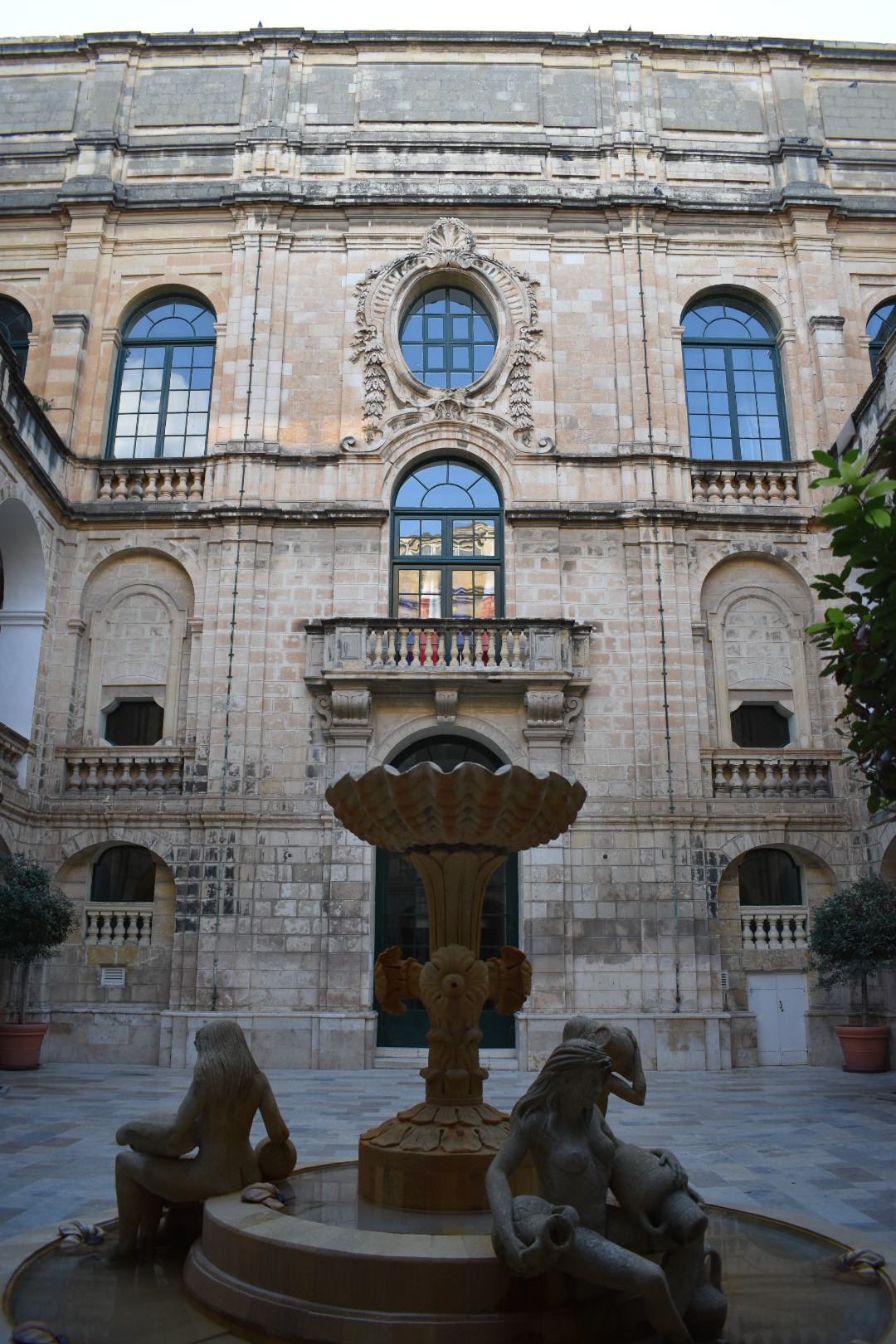 Auberge de Castille